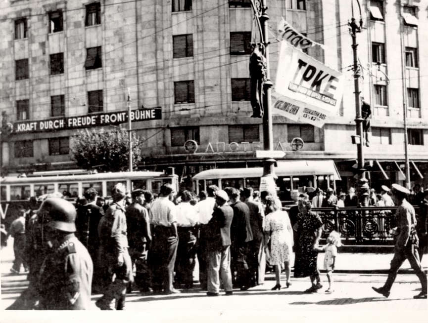 Belgrade, 1941 - The first public executions by hanging in the Terazije Square Catalog number: Zf RP i NOB A-4/21